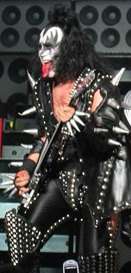 Gene Simmons in Boston